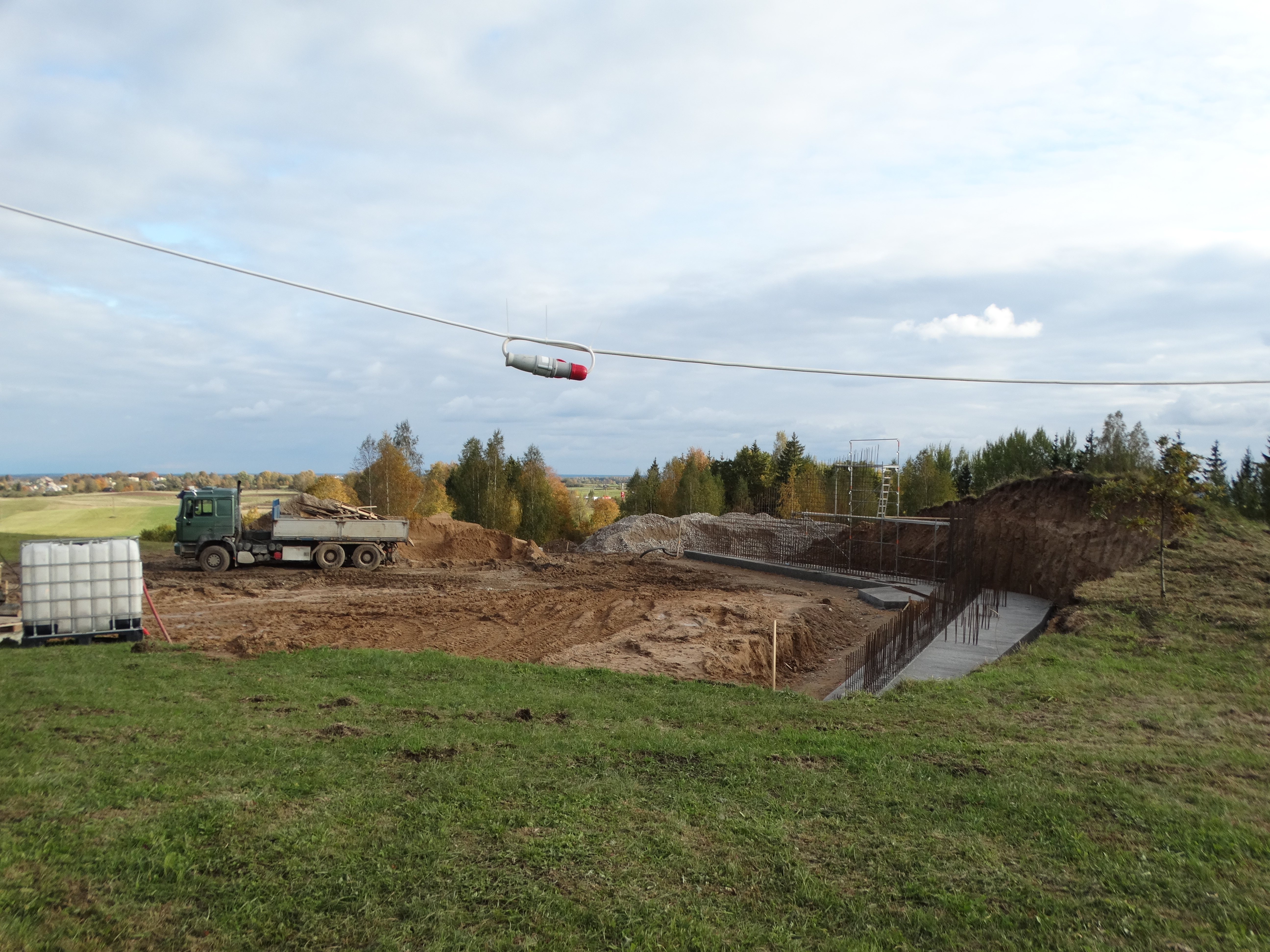 Kryžkalnis, construction site, Raseiniai district, Lithuania